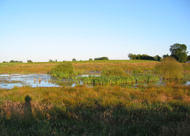 Hell Hole, near Baddiley Mere, Cheshire